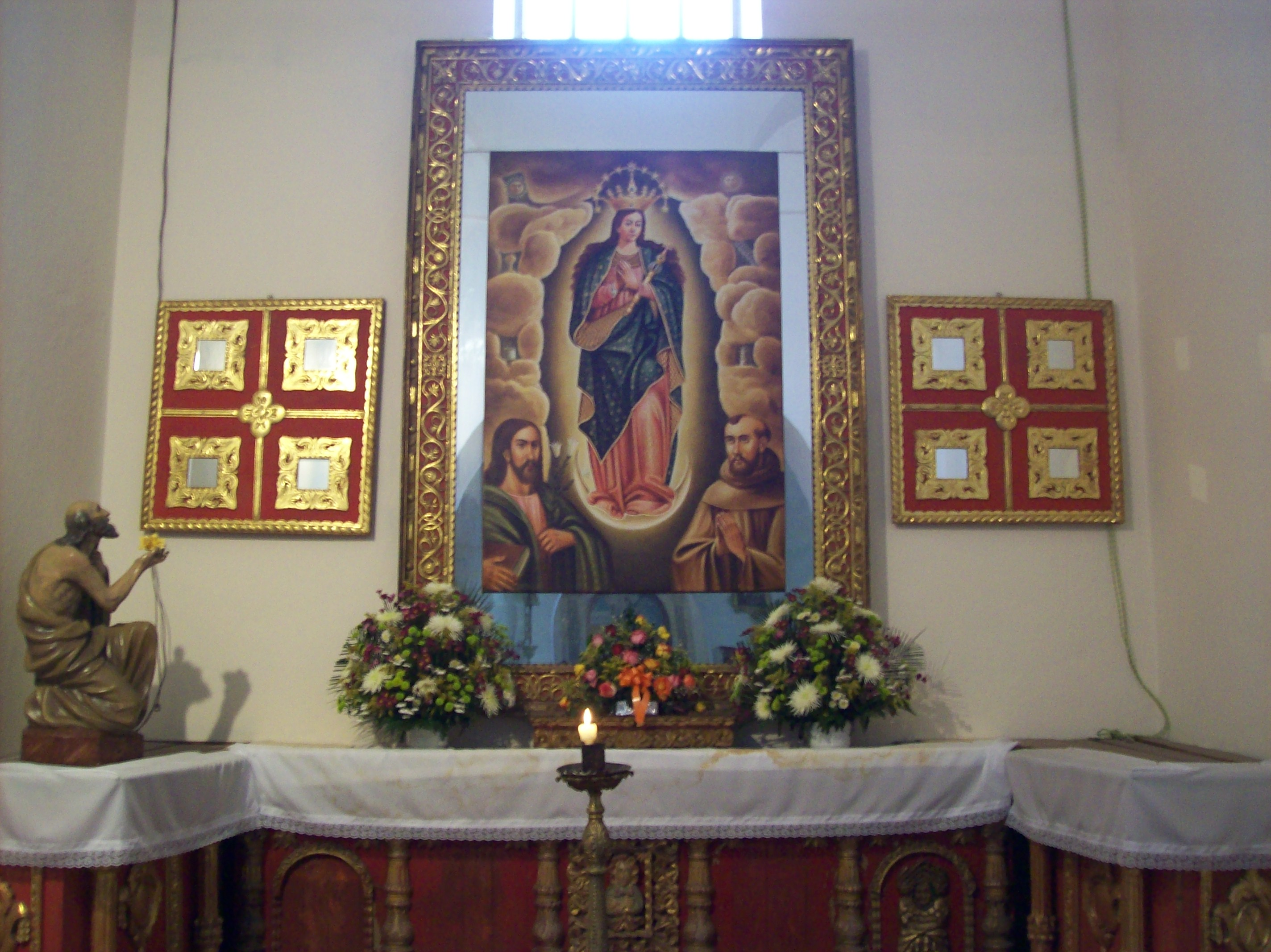 Chapel of Santiago in the Cathedral of Tunja (Colombia)